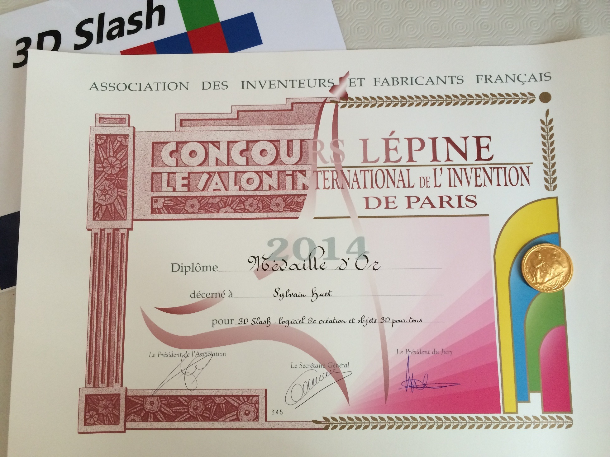 picture of Lepine Gold Medal diploma - 2014